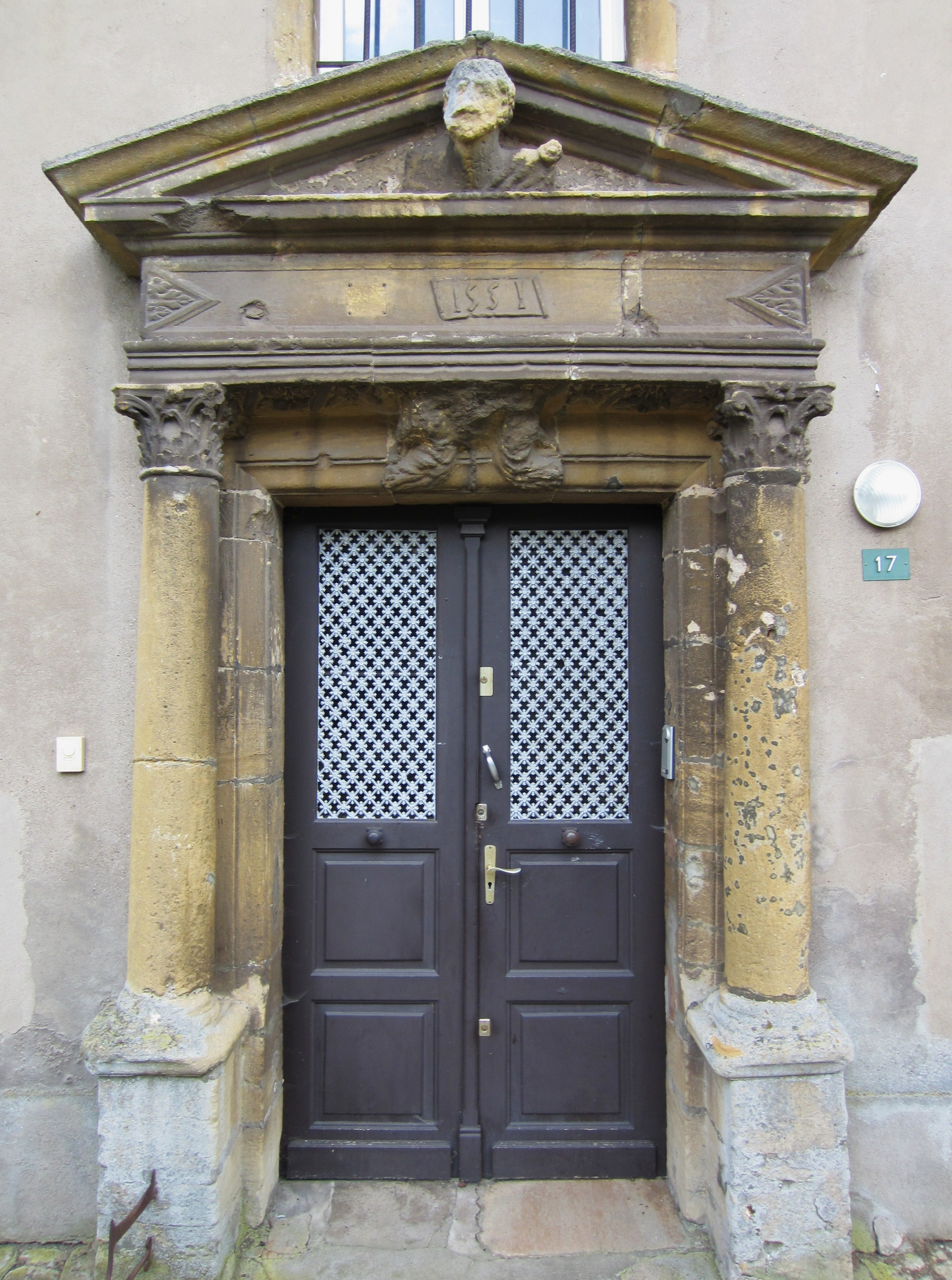 Description porche Feves Date3 September 2011Sourcemon appareil photoAuthorAimelaimePermission (Reusing this file) porche Feves